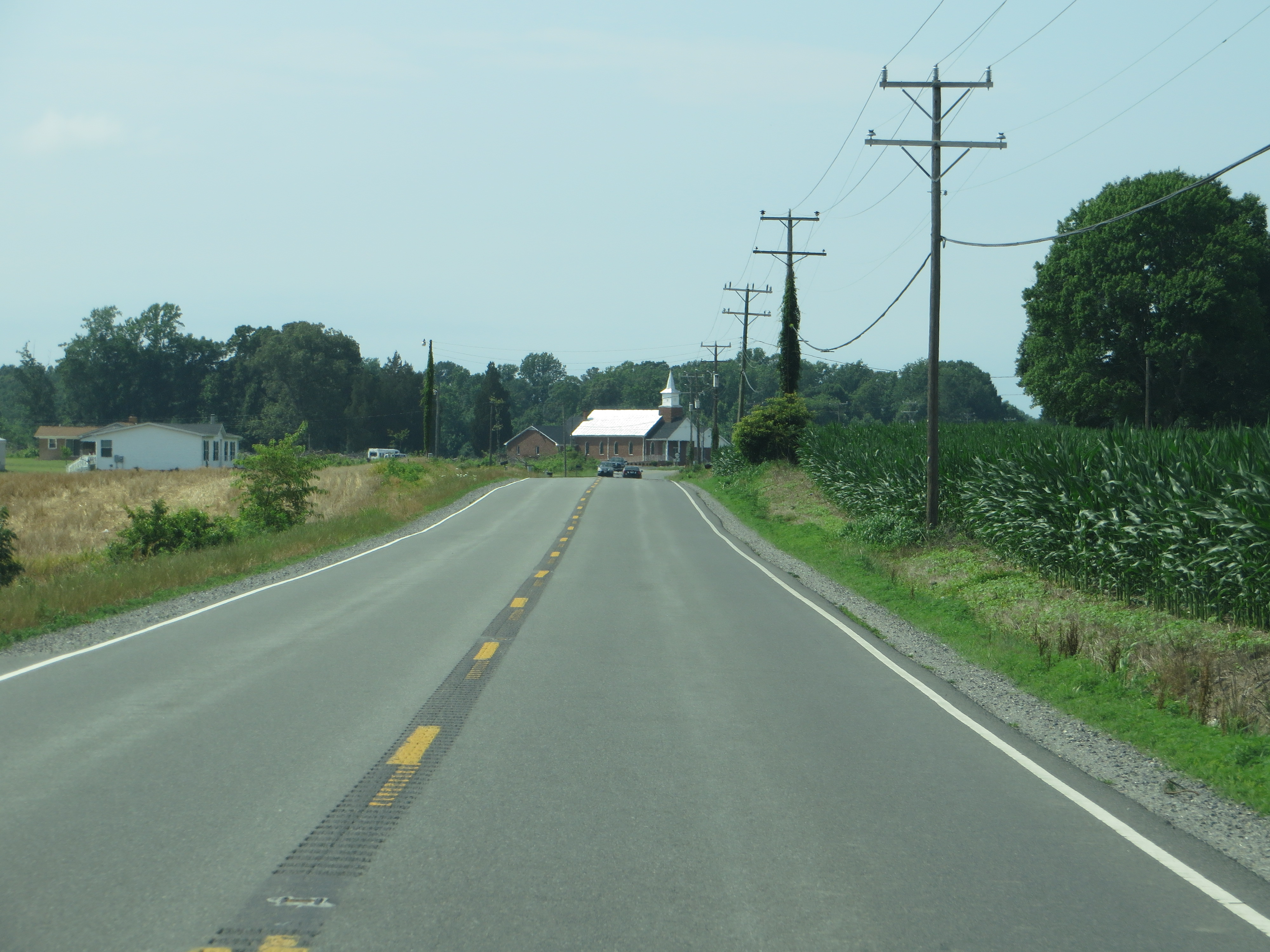 U.S. Route 360 (US 360) is a spur of US 60 in the U.S. state of Virginia. The U.S. Highway runs 225.31 miles (362.60 km) from US 58 Business, Virginia State Route 293, and SR 360 in Danville east to SR 644 in Reedville. US 360 connects Danville, South Boston, and Keysville in Southside Virginia with the state capital of Richmond. The U.S. Highway also connects Richmond with Tappahannock on the Middle Peninsula and the eastern Northern Neck, where the highway serves as the primary route through Northumberland County. US 360 is a four-lane divided highway for almost all of its length.